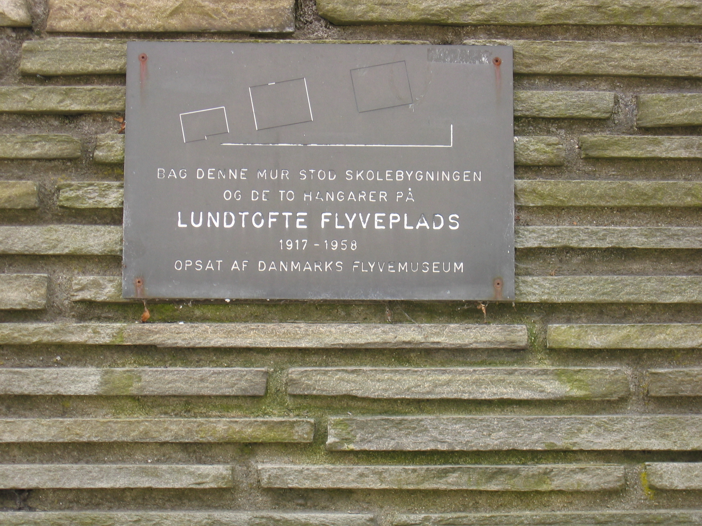 Technical University of Denmark, Kongens Lyngby, Denmark